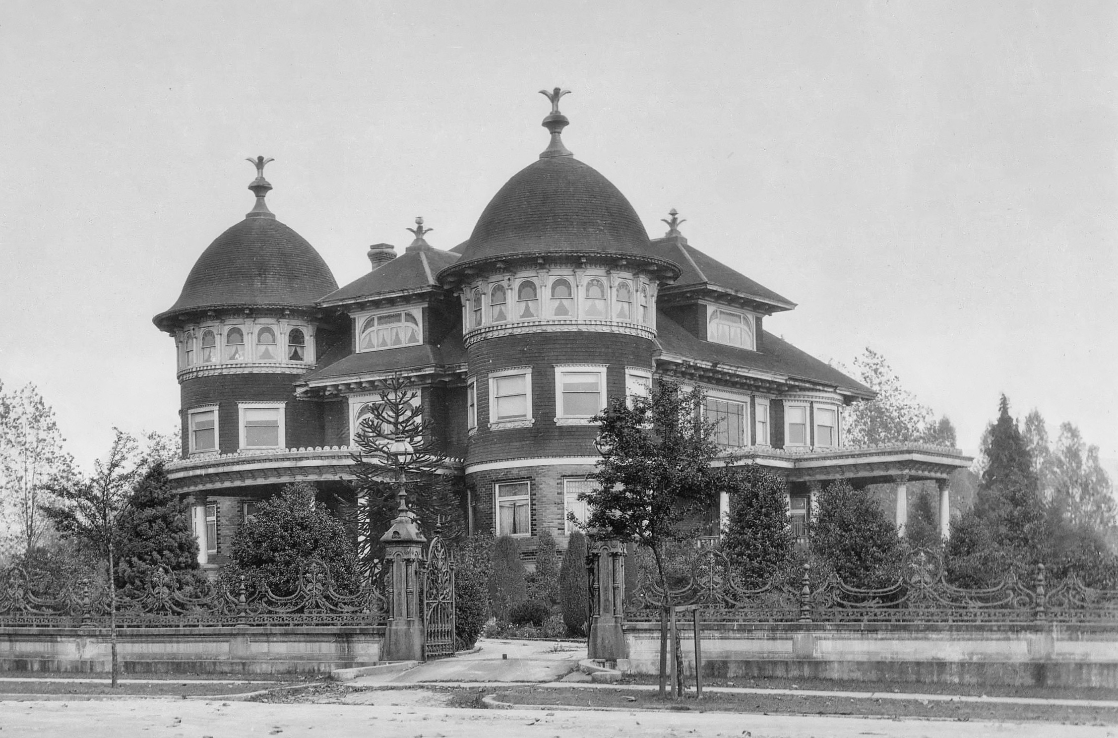 Imperial Palace of the Kanadian Knights of Ku Klux Klan, British Columbia headquarters, in 1925. Cropped version.